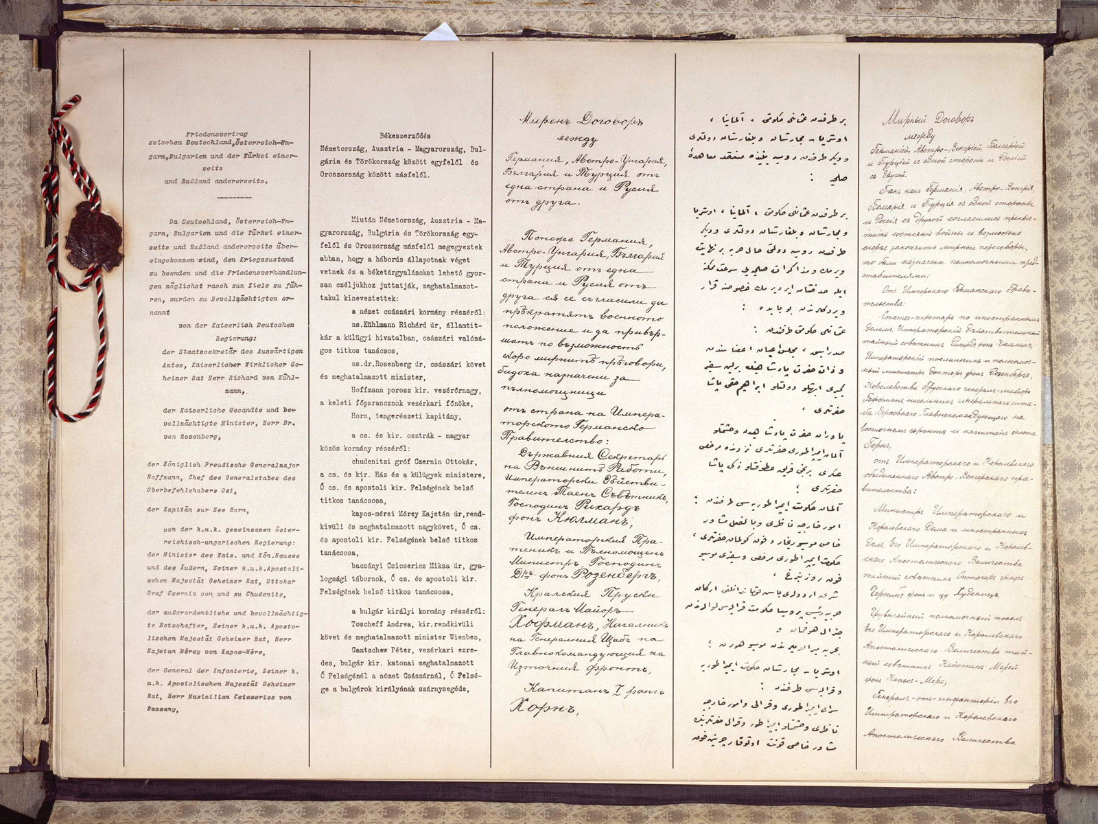 Photocopy of the first page of Brest-Litovsk Peace Treaty between Soviet Russia and Germany, Austria-Hungary, Bulgaria and Turkey, March 1918. From left to right the columns are written in: German, Hungarian, Bulgarian, Ottoman Turkish and Russian